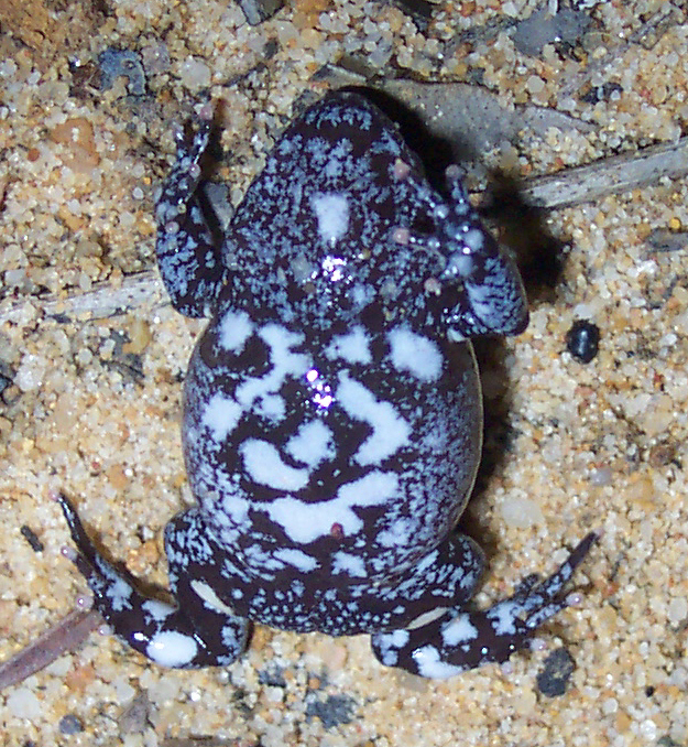 The vental surface of Pseudophryne australis, (Red-crowned Toadlet), showing strong marbling.